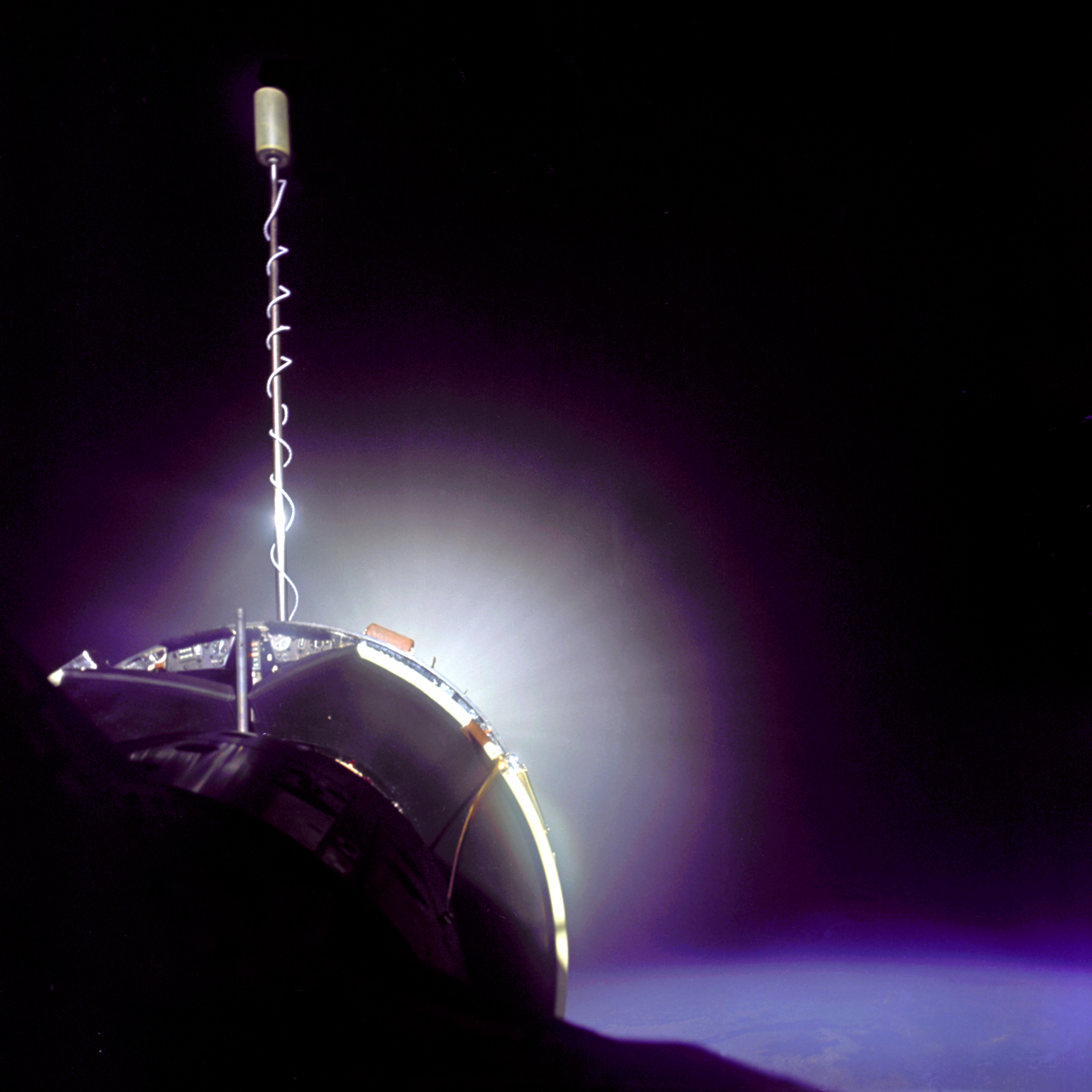 The Gemini 10 spacecraft is successfully docked with the Agena Target Vehicle. The Agena display panel is clearly visible as is glow from Agena's primary propulsion system.